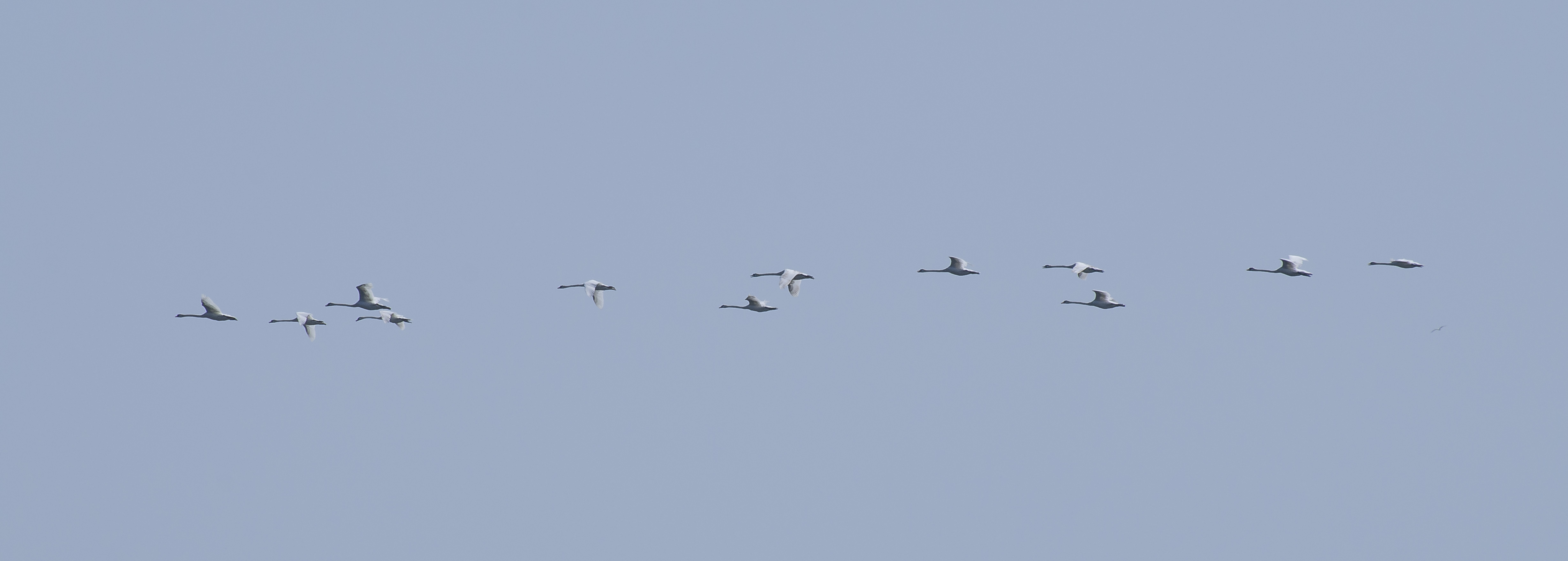 "Mute Swan" (Cygnus olor) flock in flight. Picture taken in the salt marshes in the lagoon of Venice, Italy